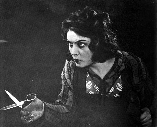 Anna Sten in Boris Barnet's film "The Girl with a Hatbox" (1927).